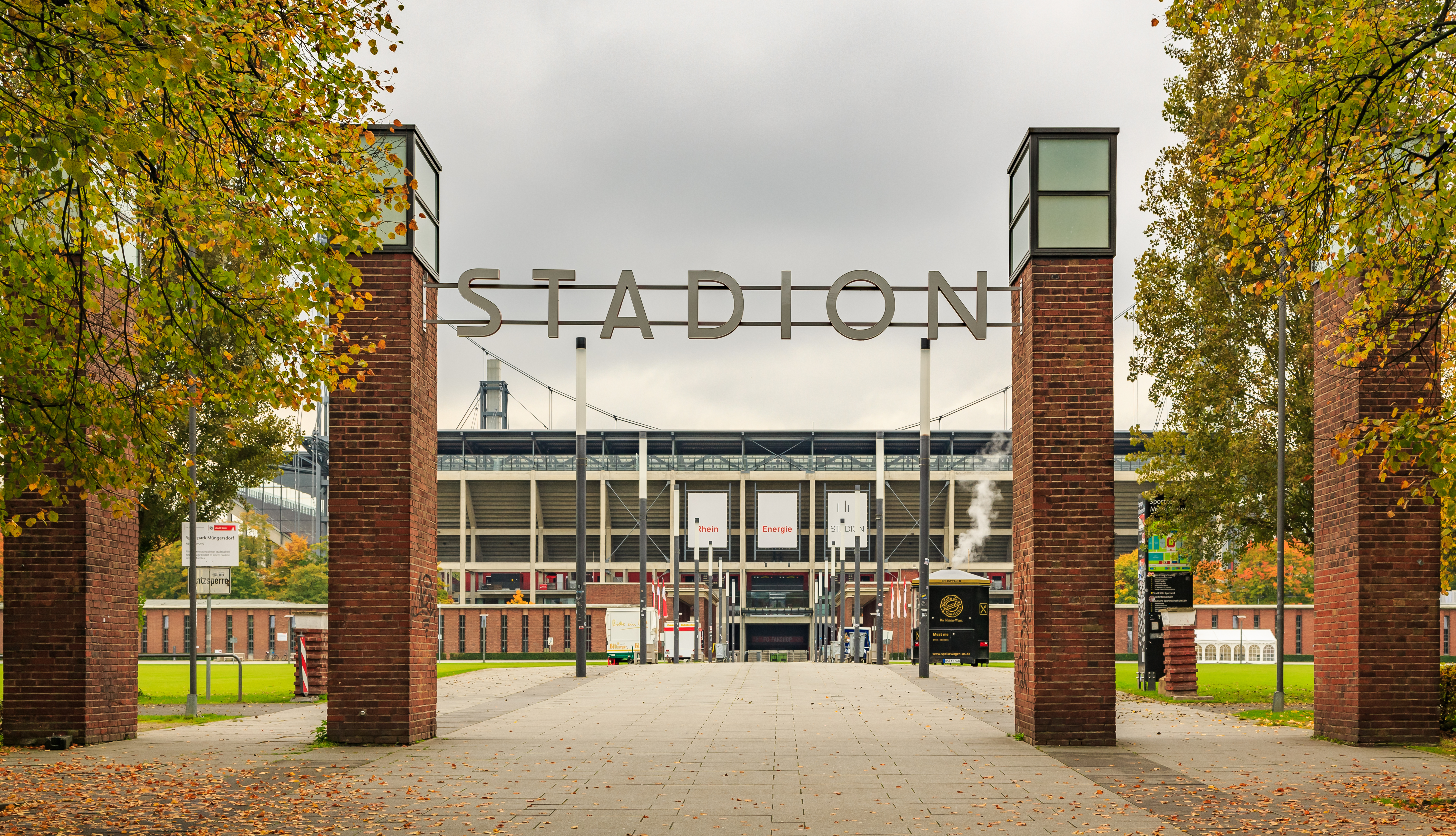 Cologne, Germany: RheinEnergieStadion in Cologne Müngersdorf, the historic entrance, Design: Adolf Abel